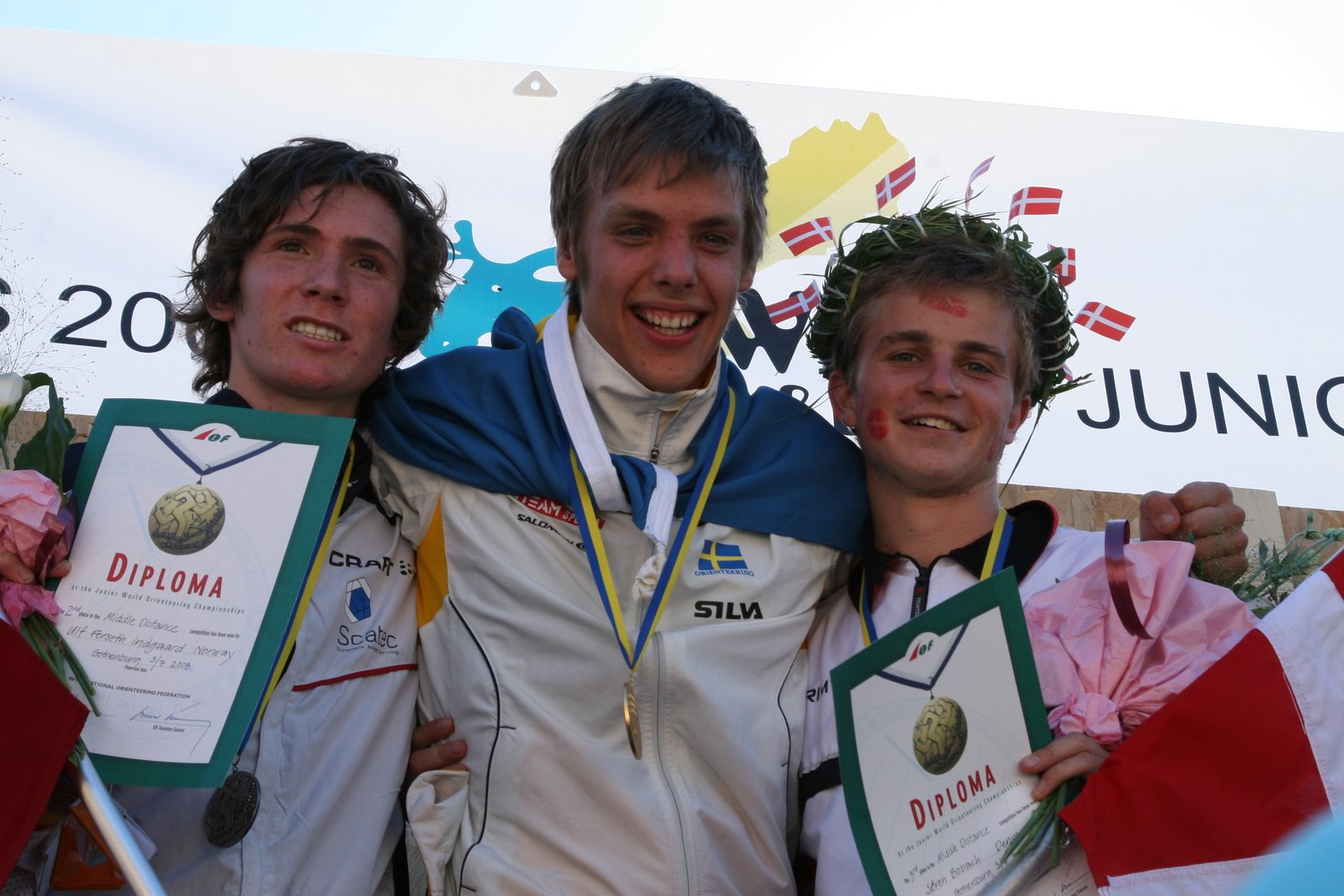 Winners of JWOC 2008 (Middle) 1) Johan Runesson (SWE) 2) Ulf Forseth Indgaard (NOR) 3) Sören Bobach (DEN)